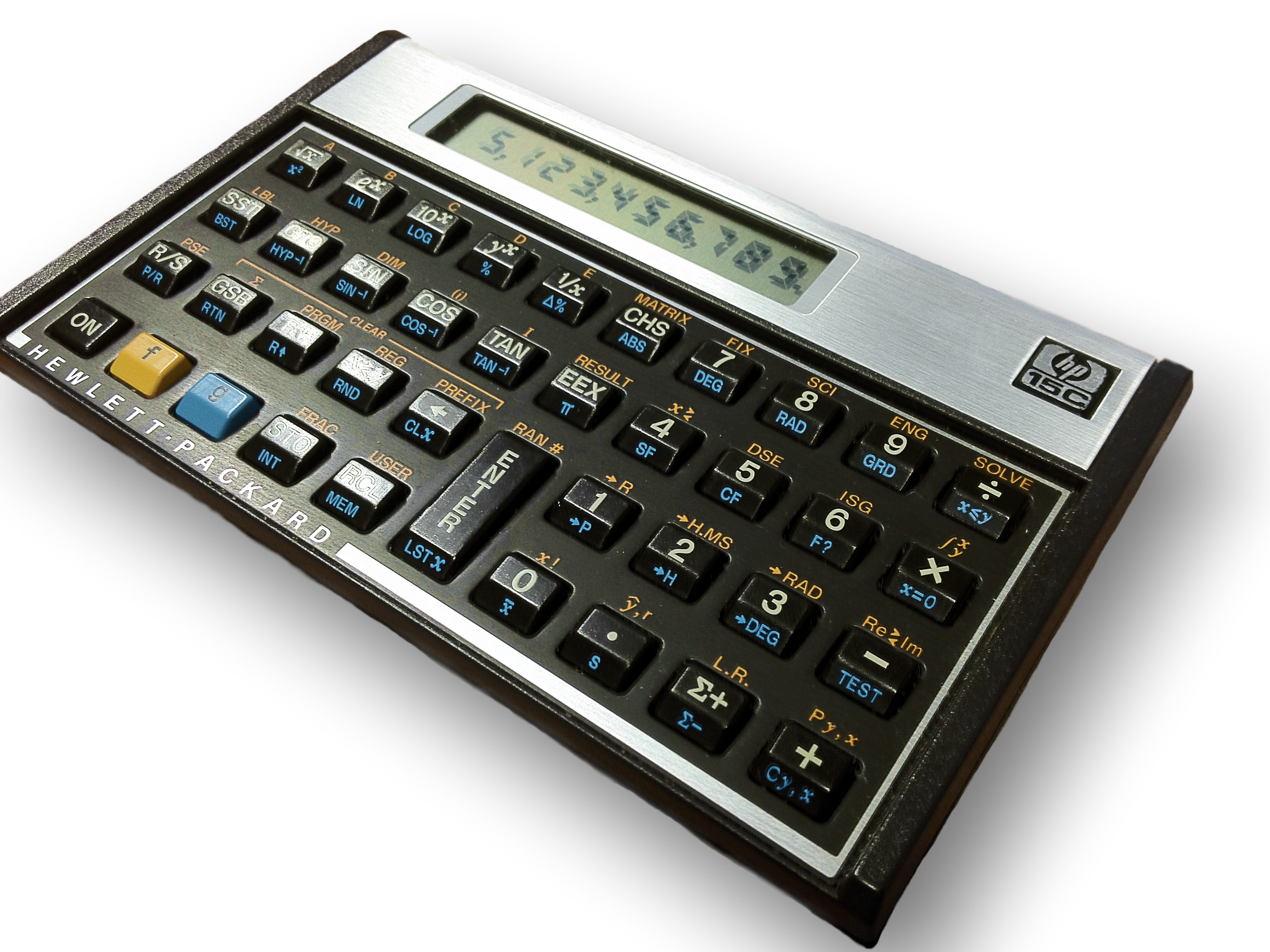 Programmable Calculator Hewlett Packard HP-15C, 1980ies